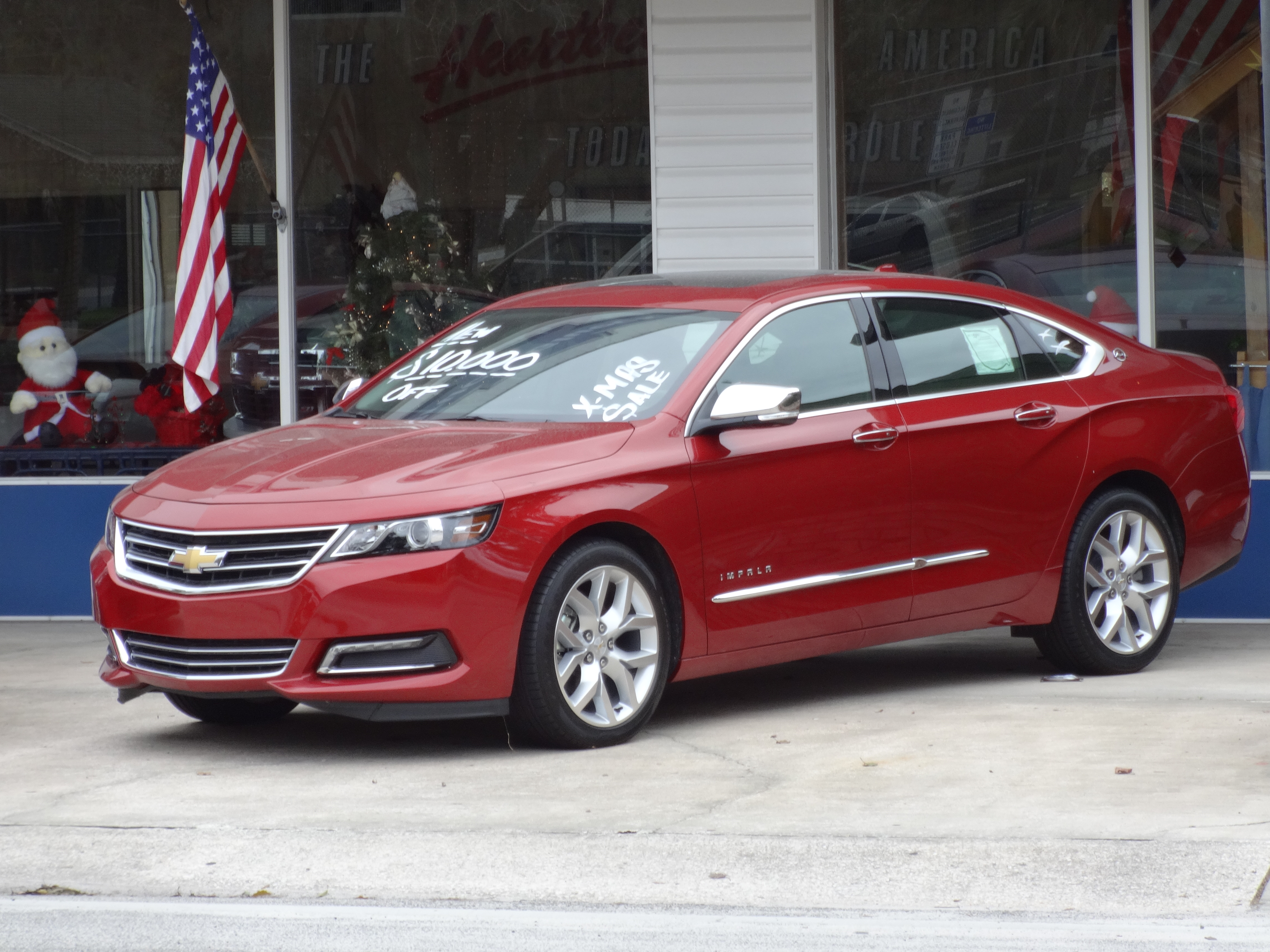 Chevrolet Impala, Jasper, Hamilton County, Florida